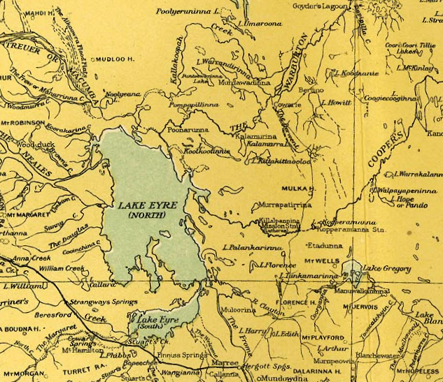 Tirari Desert (South Australia) and environs in 1916. (Note:the desert is not labelled or delineated). This is a cropped section of the map "Commonwealth of Australia", published with the Official Year Book of the Commonwealth of Australia, Melbourne: McCarron, Bird and Co., 1916.